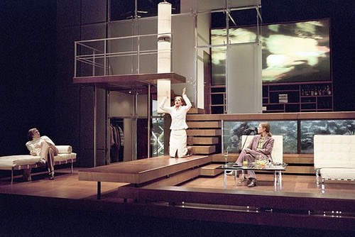 'Nora' - Schabuehne's & Thomas Ostermeier's Australian debut at the 2006 Adelaide Festival